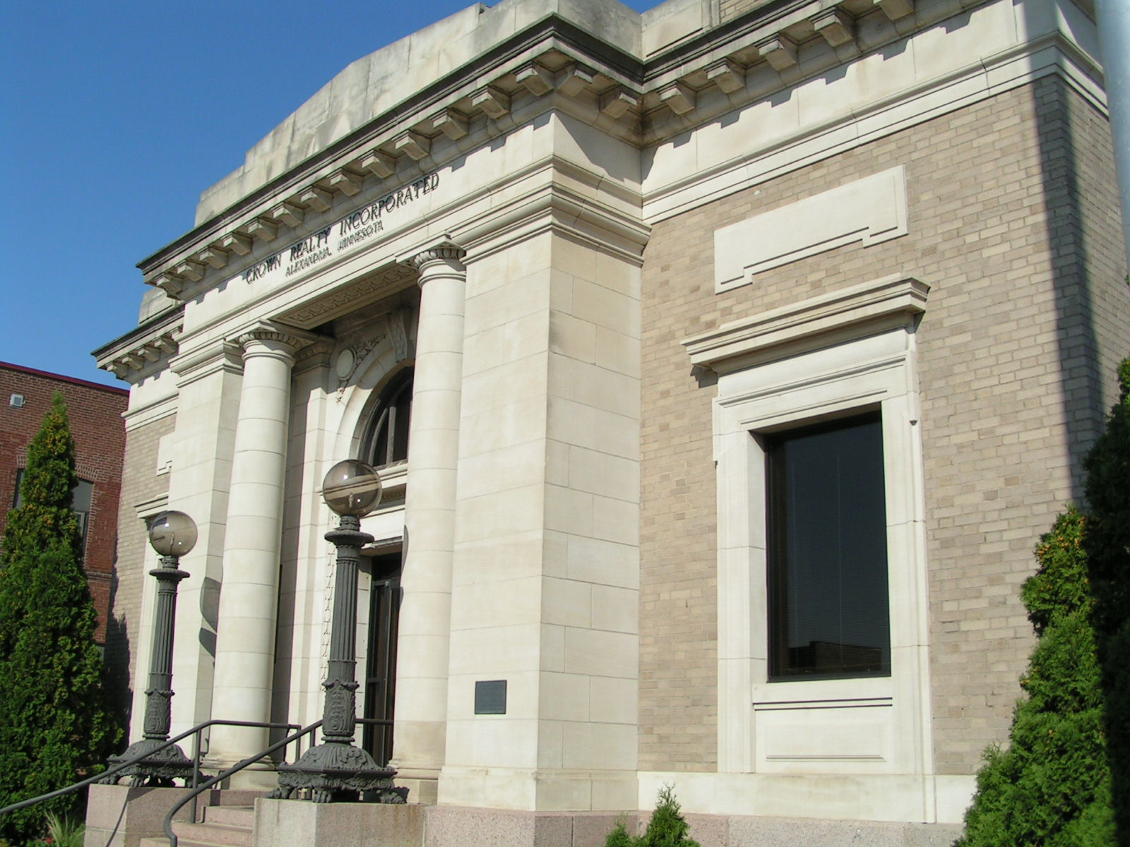 Former U.S. Post Office in Alexandria, Minnesota located at 625 Broadway Street